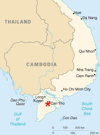 Location of Binh Thuy Air Base. Created from map of southern (south) vietnam generated from wikipedia commons map of southeast asia